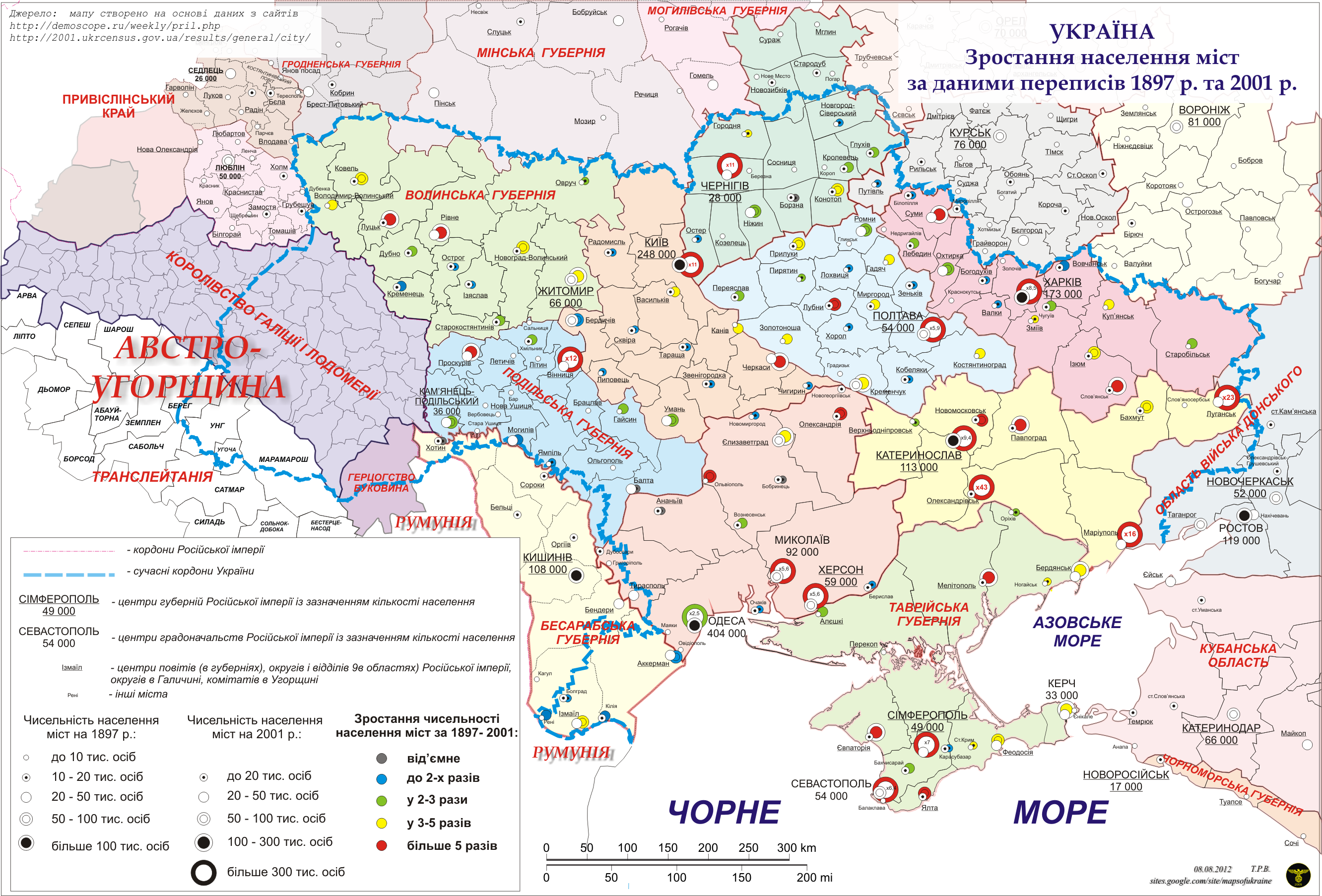 UKRAINE. The growth of urban population according to the census in 1897 and 2001